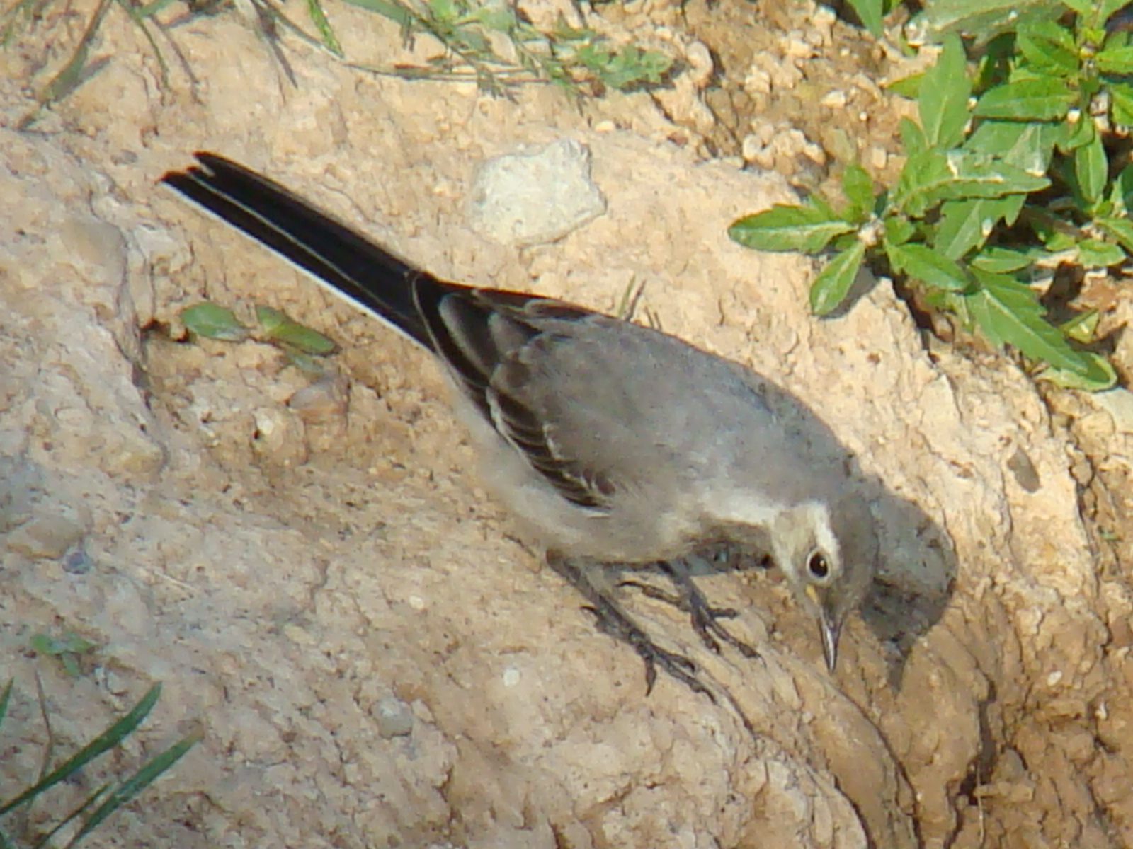 Photo of the juvenile White Wagtail (Motacilla alba) in in Raizgiai, Siauliai, Lithuania.